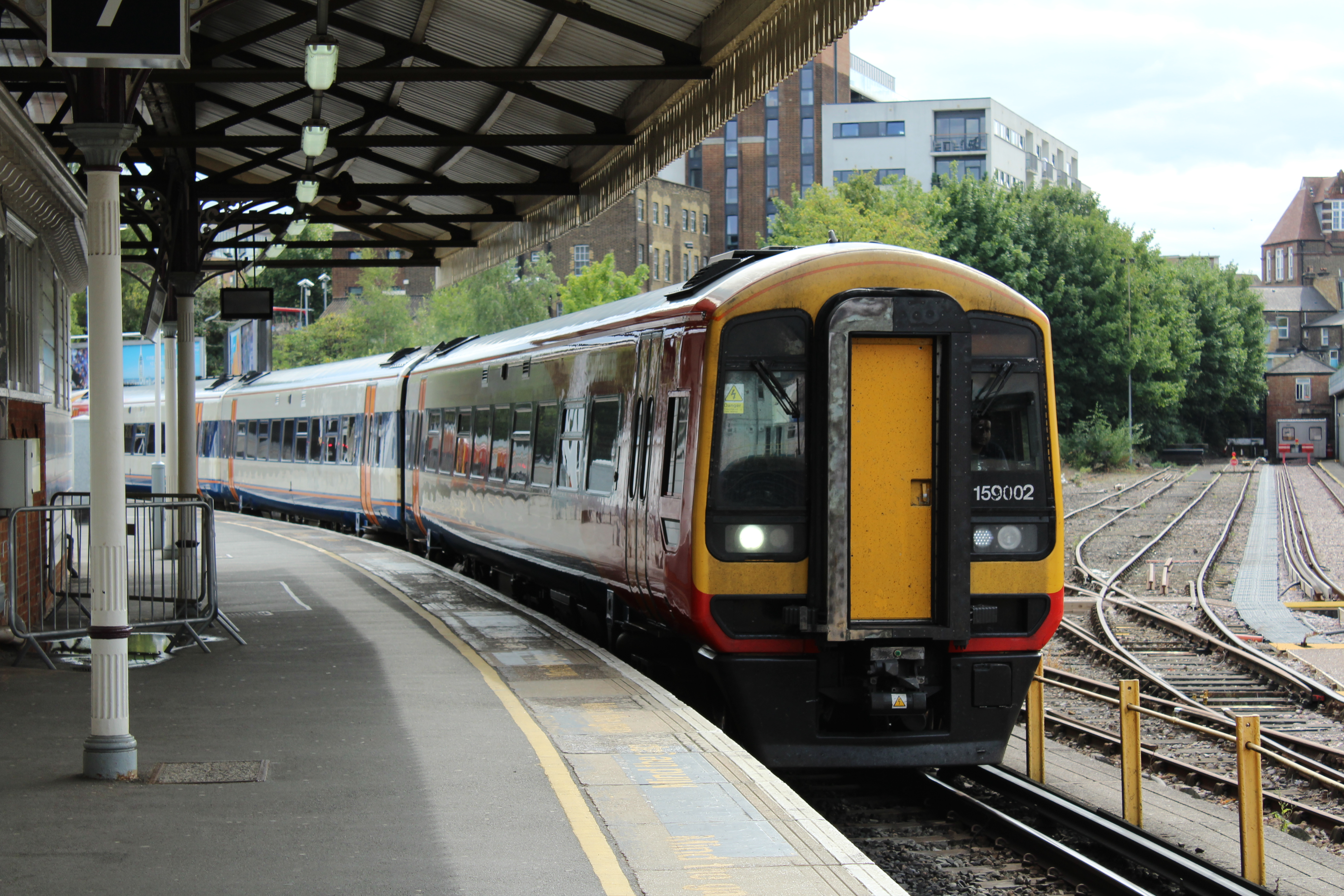 Class 159 South Western Turbo Number 002 Sits at Clapham Jcn